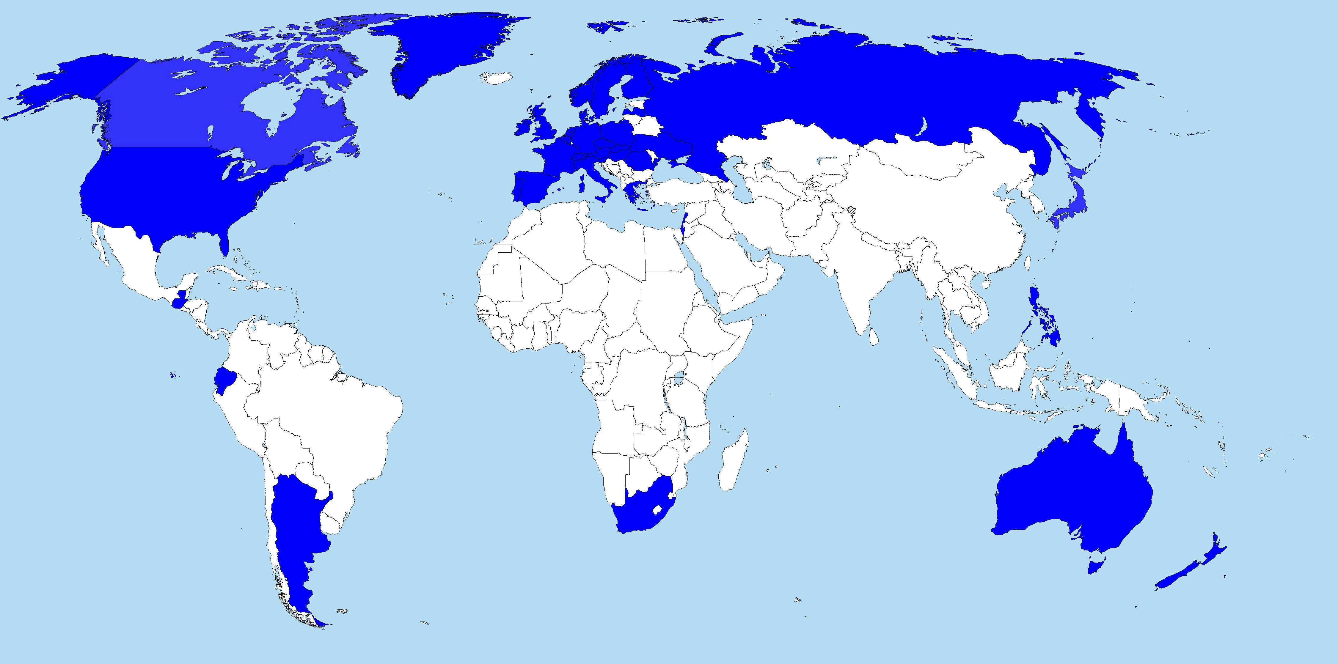 Faded is peaked at higher positions in more blueish countries.